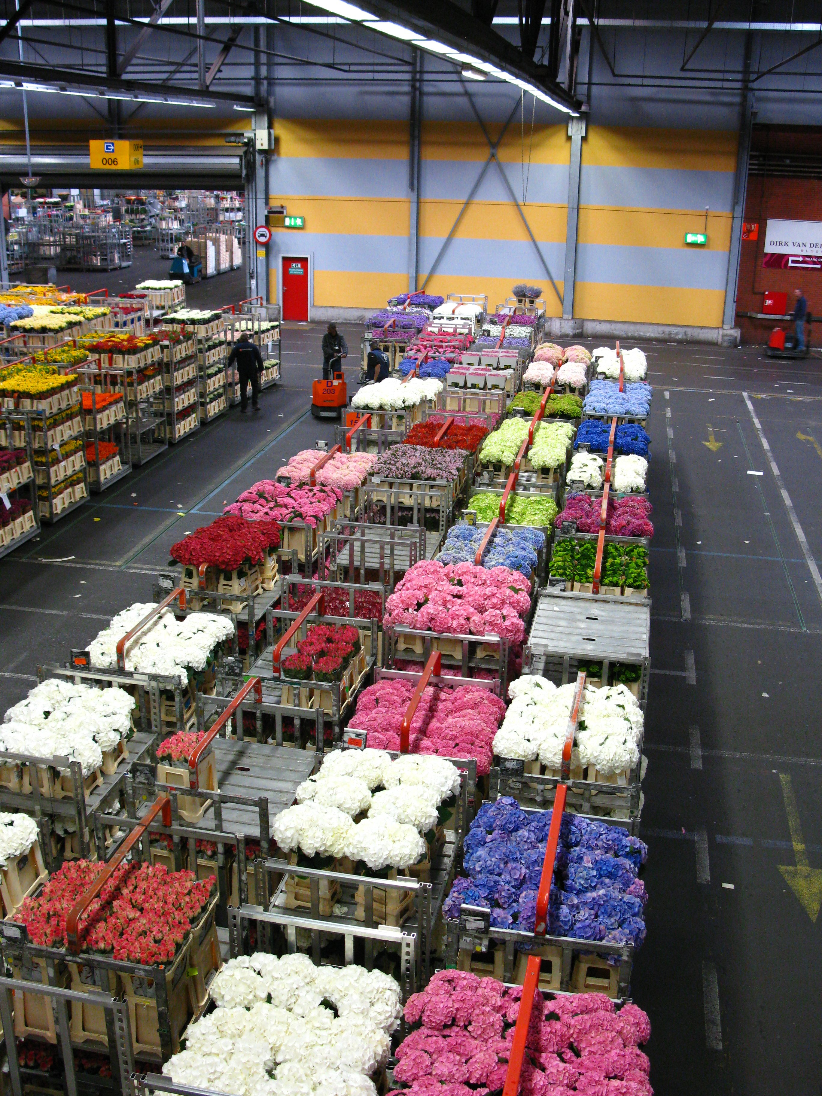 Flower auction in Aalsmeer